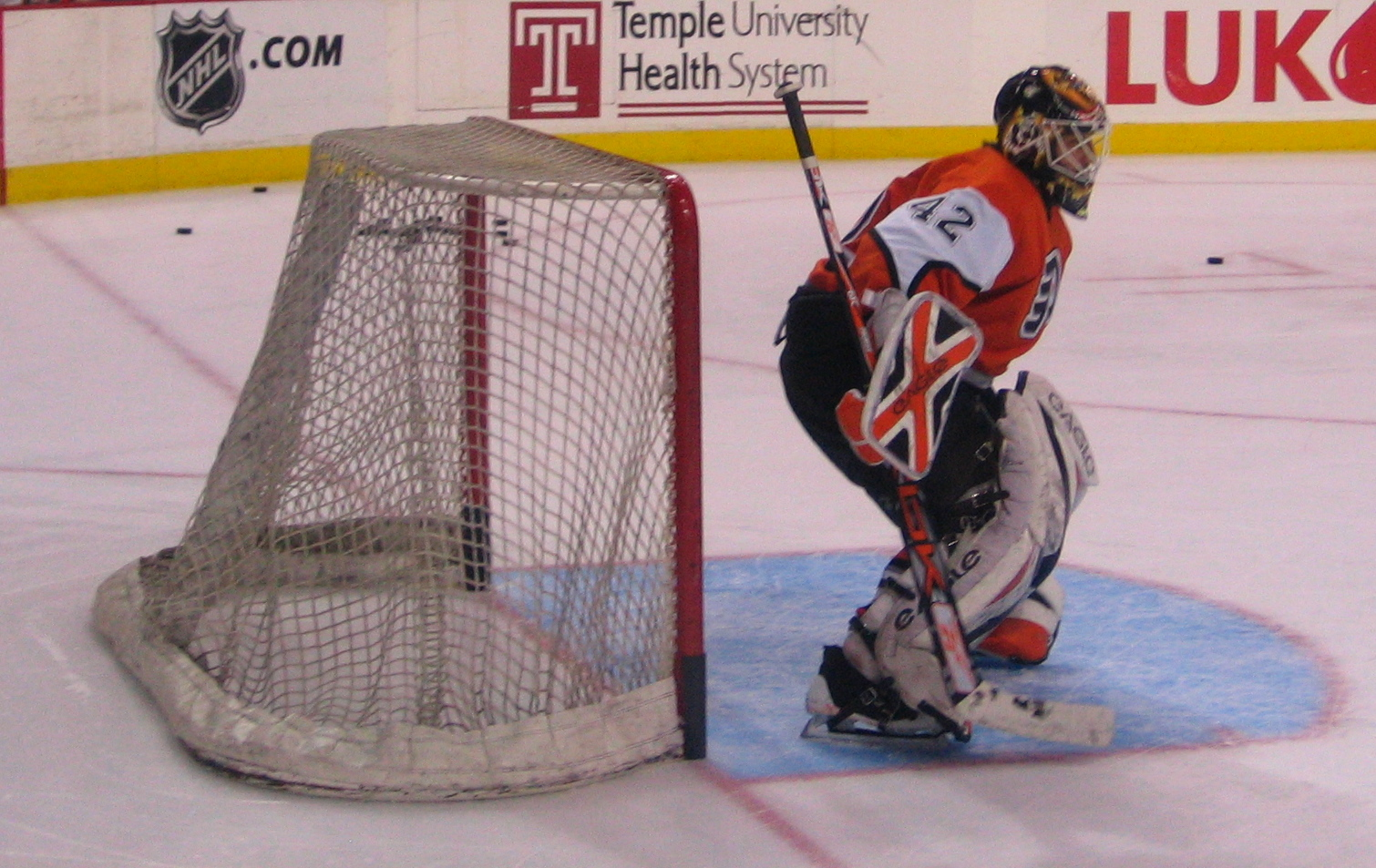 Robert Esche, Taken before the Flyers' game against the Pittsburgh Penguins on January 13, 2007.